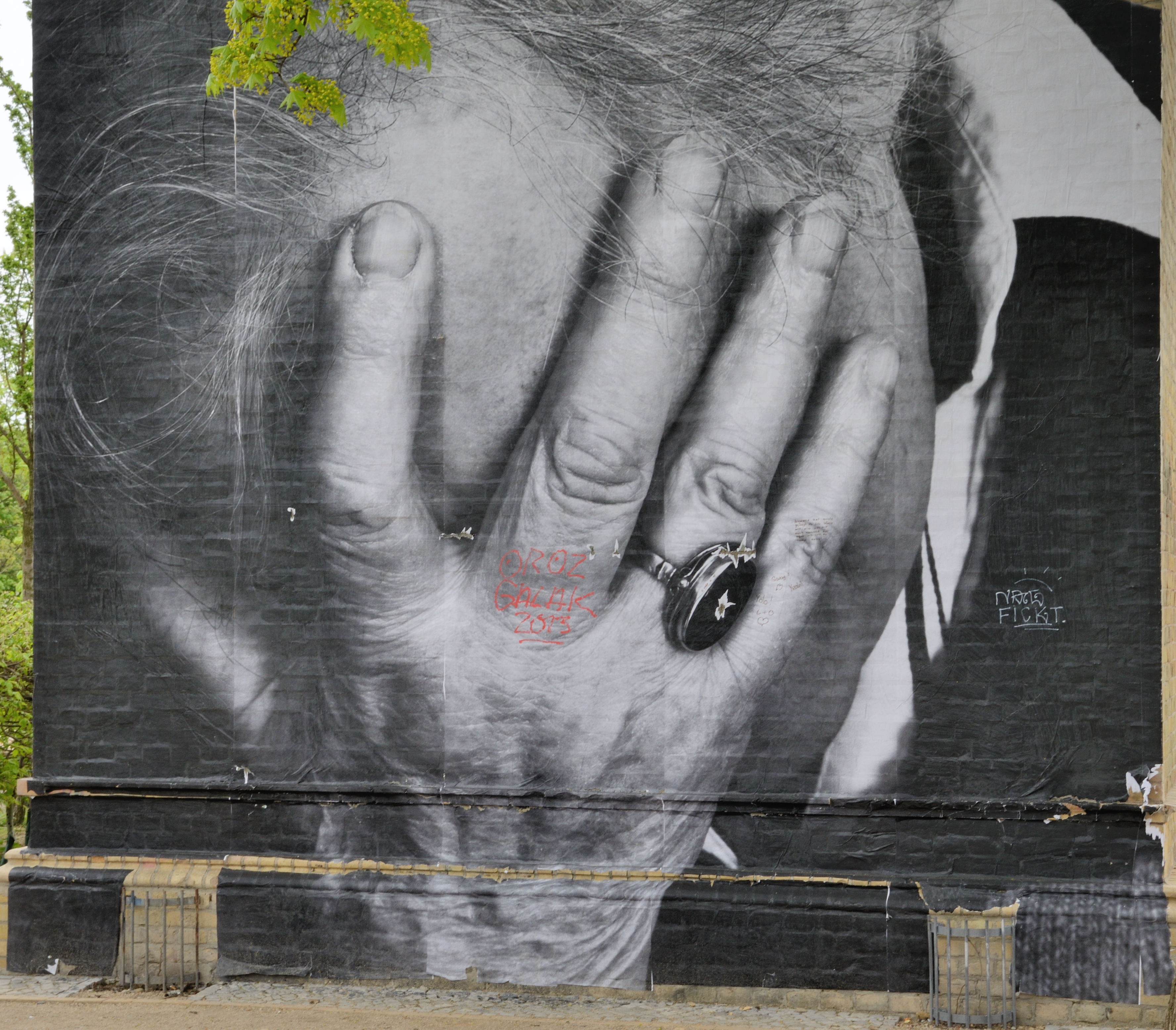 Berlin: watertower "Prenzlauer Berg"